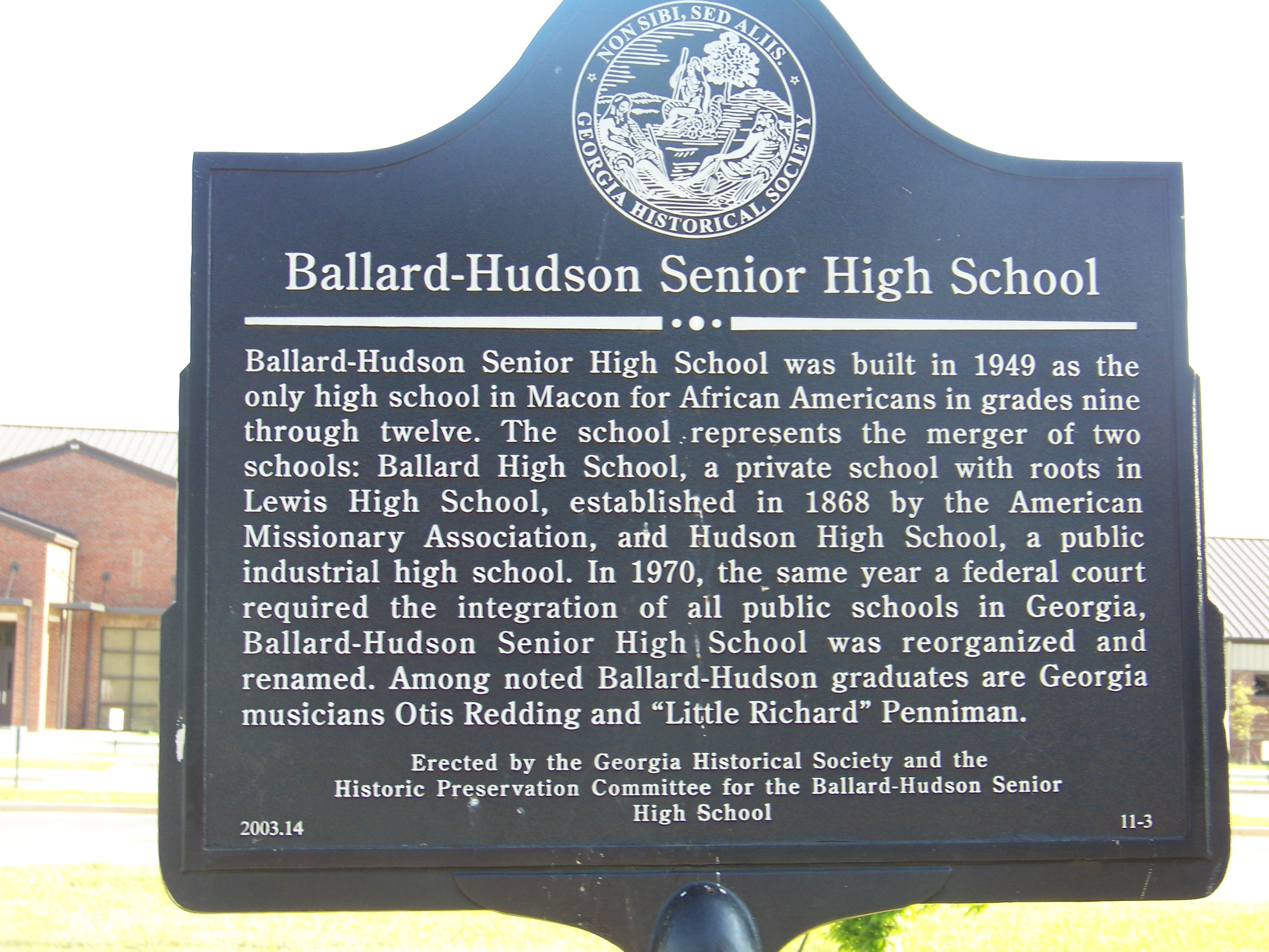 A Georgia Historic Marker about Ballard-Hudson High School.